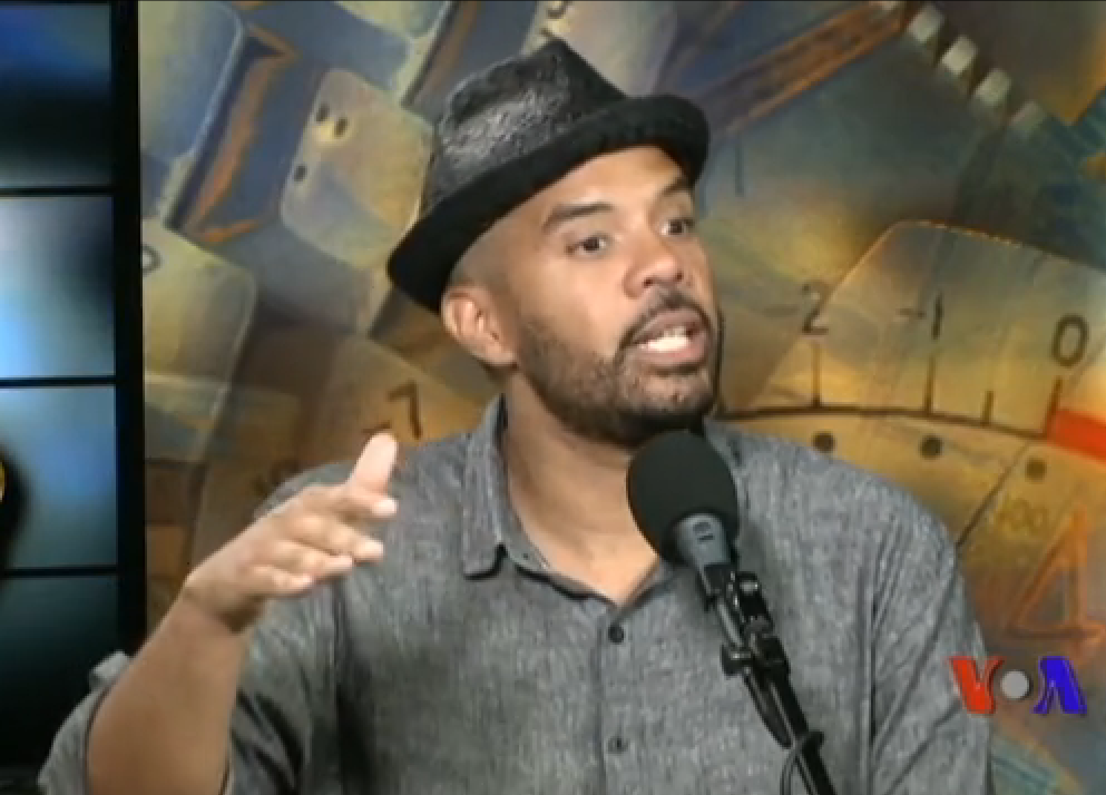 Screen capture from the Voice of America video, soul singer Russell Taylor.